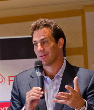 Dave DeWalt, CEO and Chairman of the Board of FireEye in South Korea, in June 2013